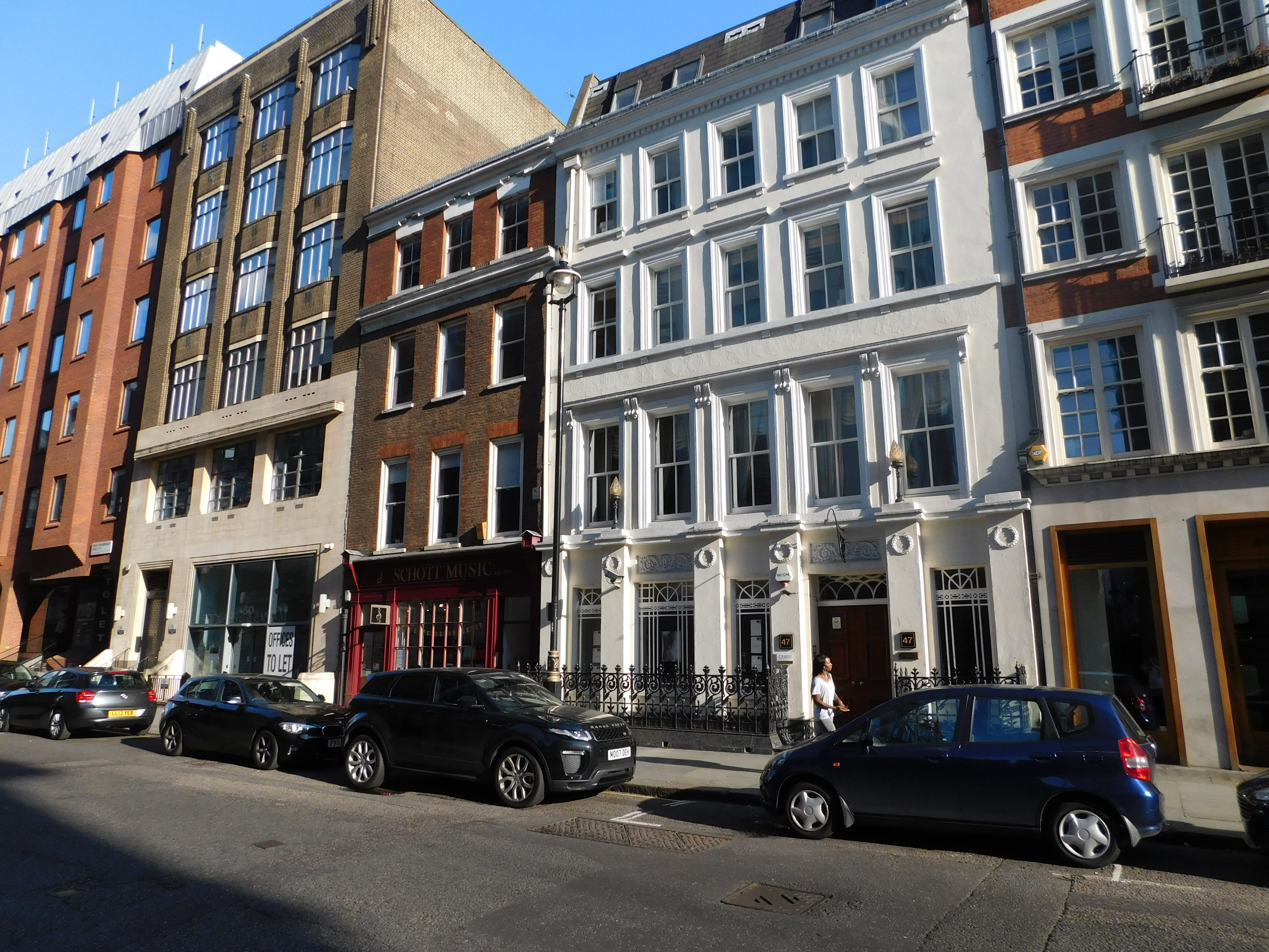 Soho: Great Marlborough Street